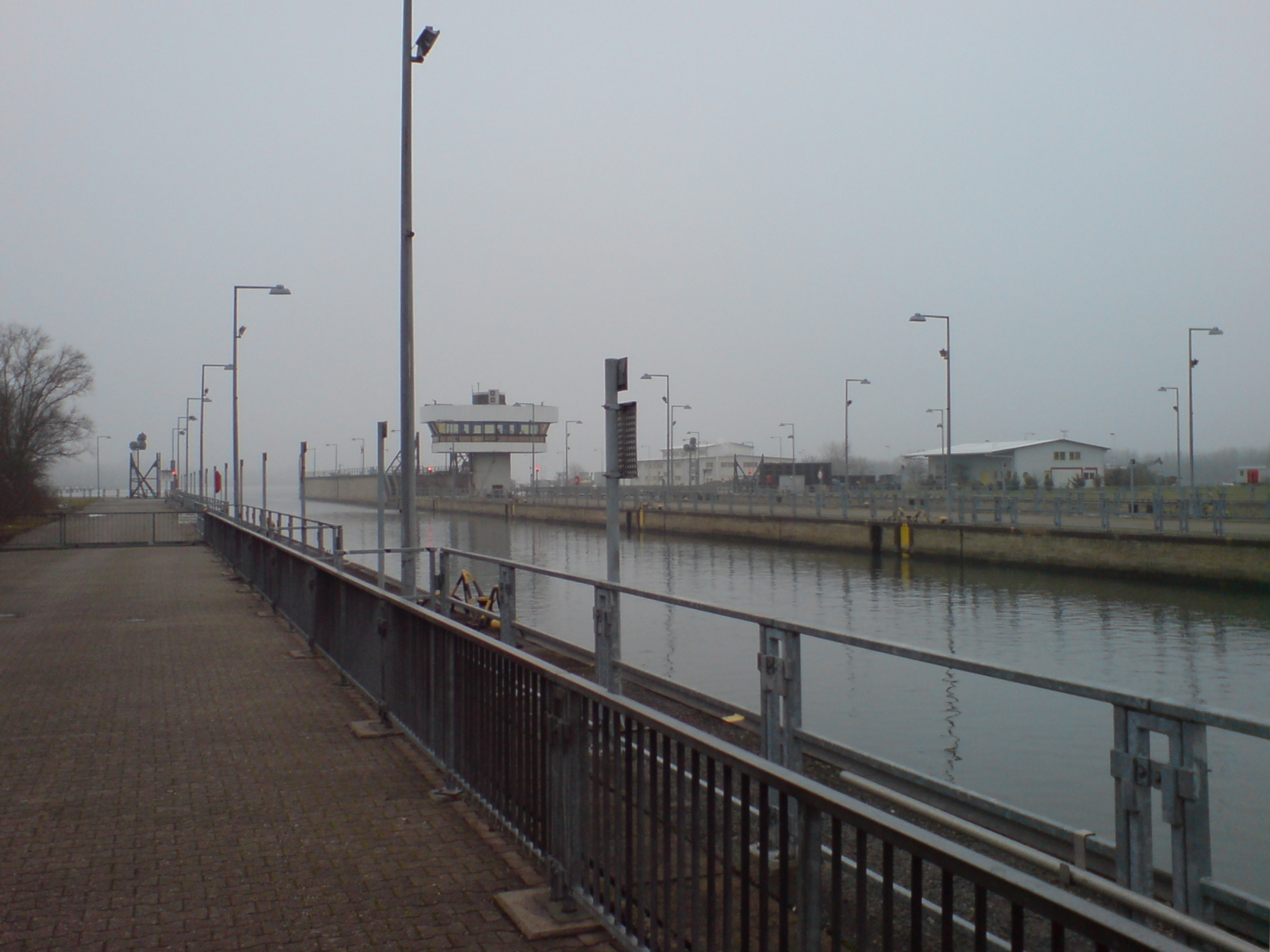 The lock at Iffezheim, Germany seen towards the upstream side. The secondary (smaller) control tower (not used anymore).